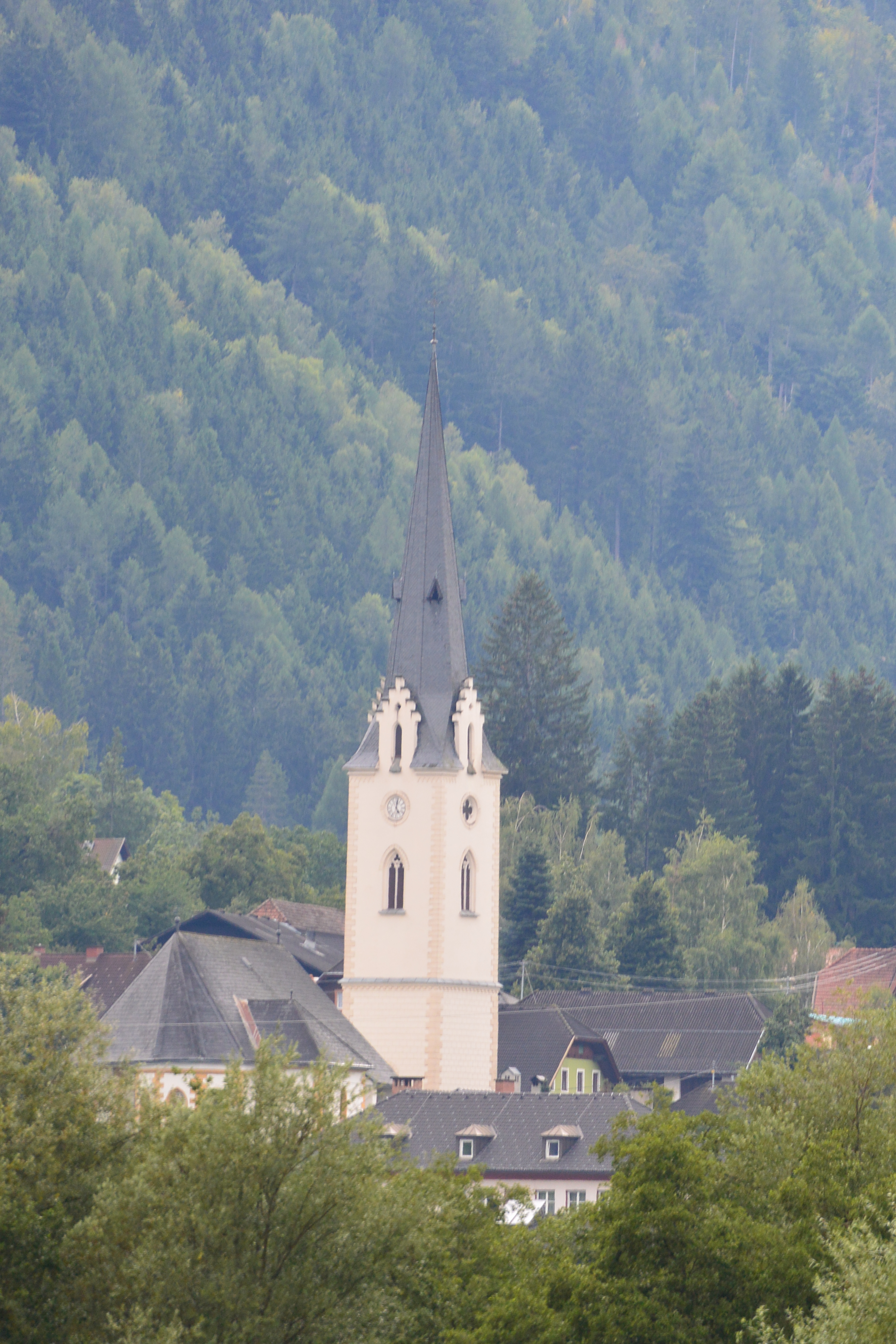 Parish church Baldramsdorf in the community of Baldramsdorf